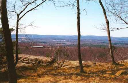 Provin Mountain ledge. Southwick, Massachusetts. 2001. By Paul Gagnon